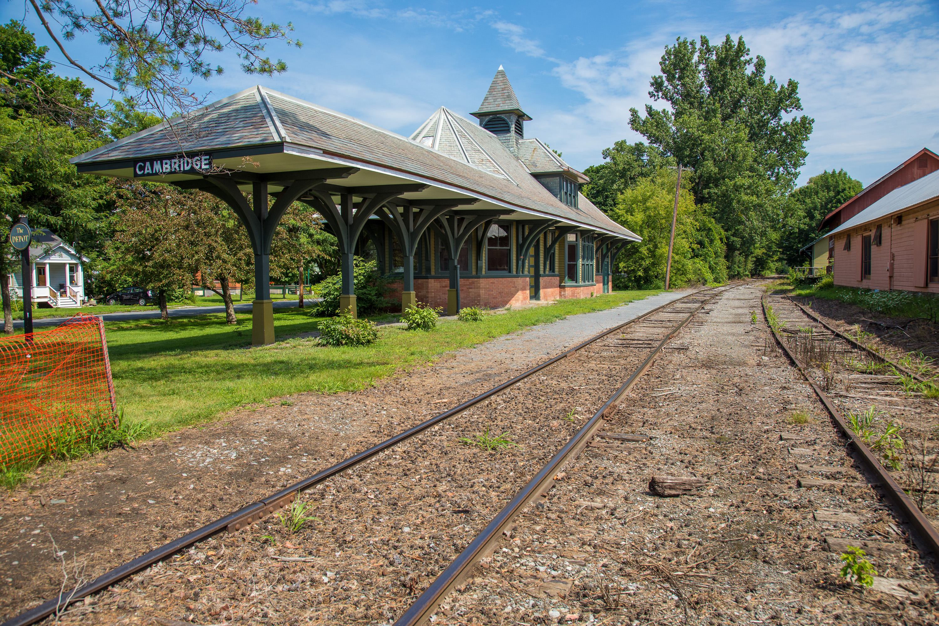 Cambridge NY Train Depot. Part of Cambridge Historic District, NRHP 78001922.